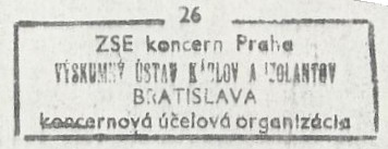 Old rubber stamp of the czechoslovak research institute VÚKI Bratislava (year 1987).